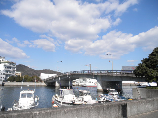 Yachiyo bridge Komatsushimatown Komatsushimacity Tokushimapref